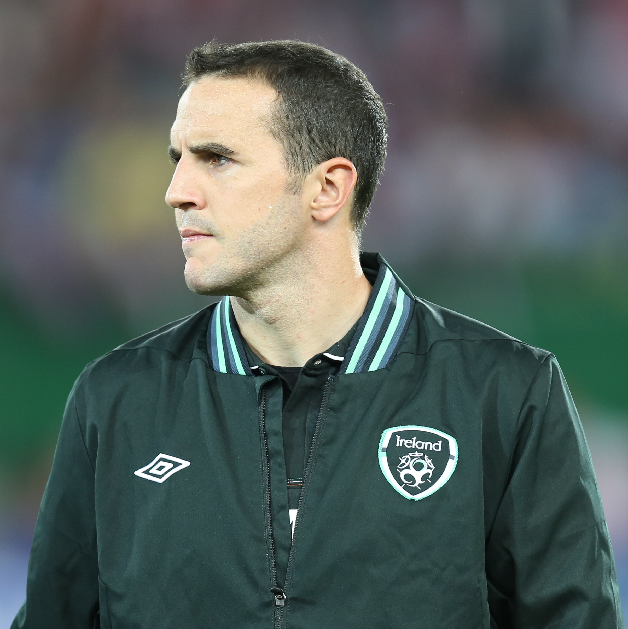 2014 FIFA World Cup qualification (UEFA), Group C: Republic of Ireland national football team at 10. September 2013 before the match against the Austria national football team (0:1) in the Ernst-Happel-Stadion in Vienna. Here: John O'Shea, irish defender The making of this work was supported by Wikimedia Austria. For other files made with the support of Wikimedia Austria, please see the category Supported by Wikimedia Österreich.